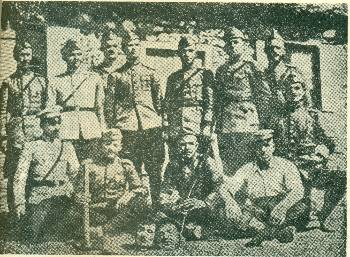 Bulgarian military photographed showing the severed heads of the Greek rebels. September 1941, Drama, Eastern Macedonia, Greece.